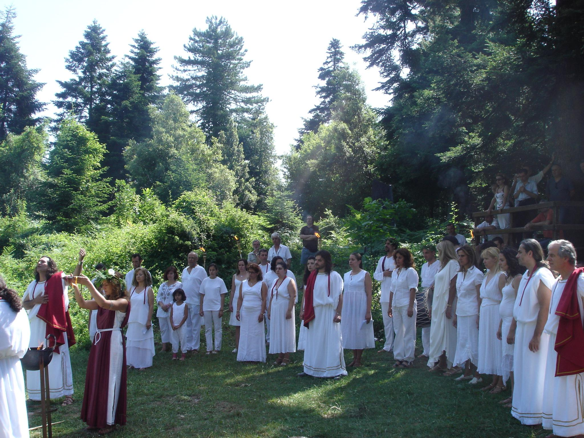 Hellen ritual performed by members of the YSEE, Supreme Council of Ethnikoi Hellenes.